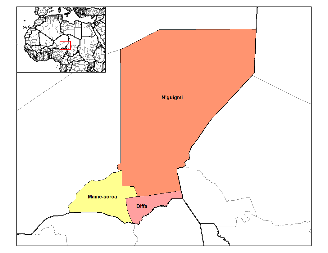 Summary Map of the arrondissements of Diffa department in Niger. Created by Rarelibra 14:33, 13 September 2006 (UTC) for public domain use, using MapInfo Professional v8.5 and various mapping resources.